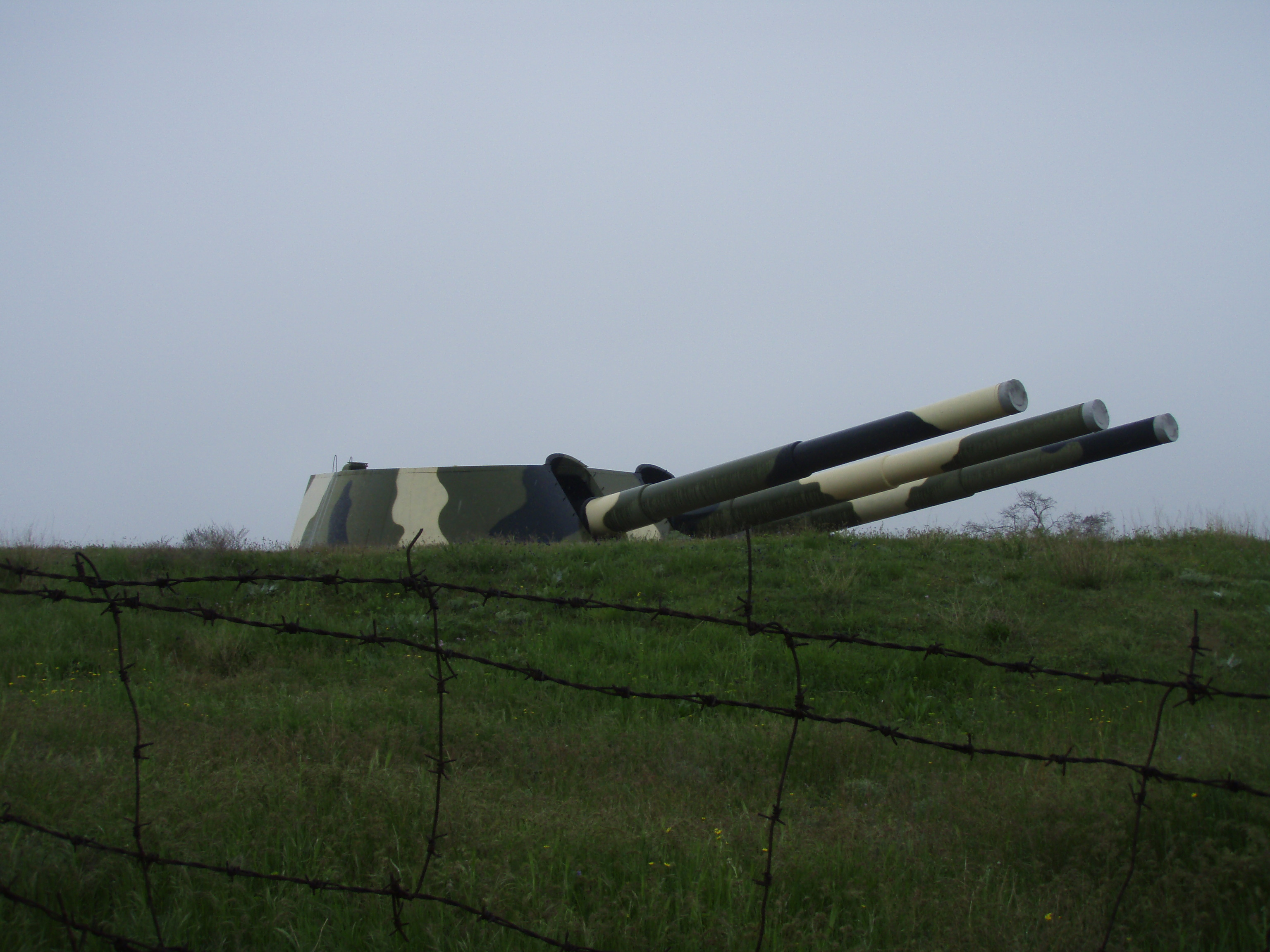 30th Coastal Battery - MAXIM GORKY I